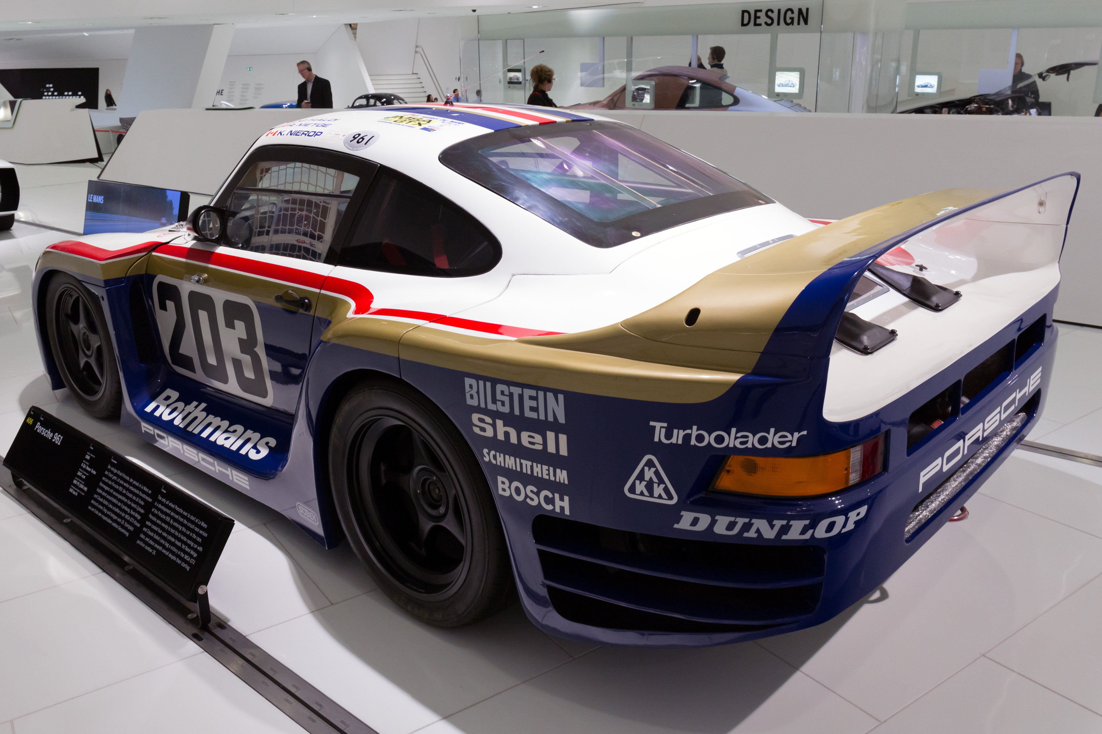 1986 Porsche 961